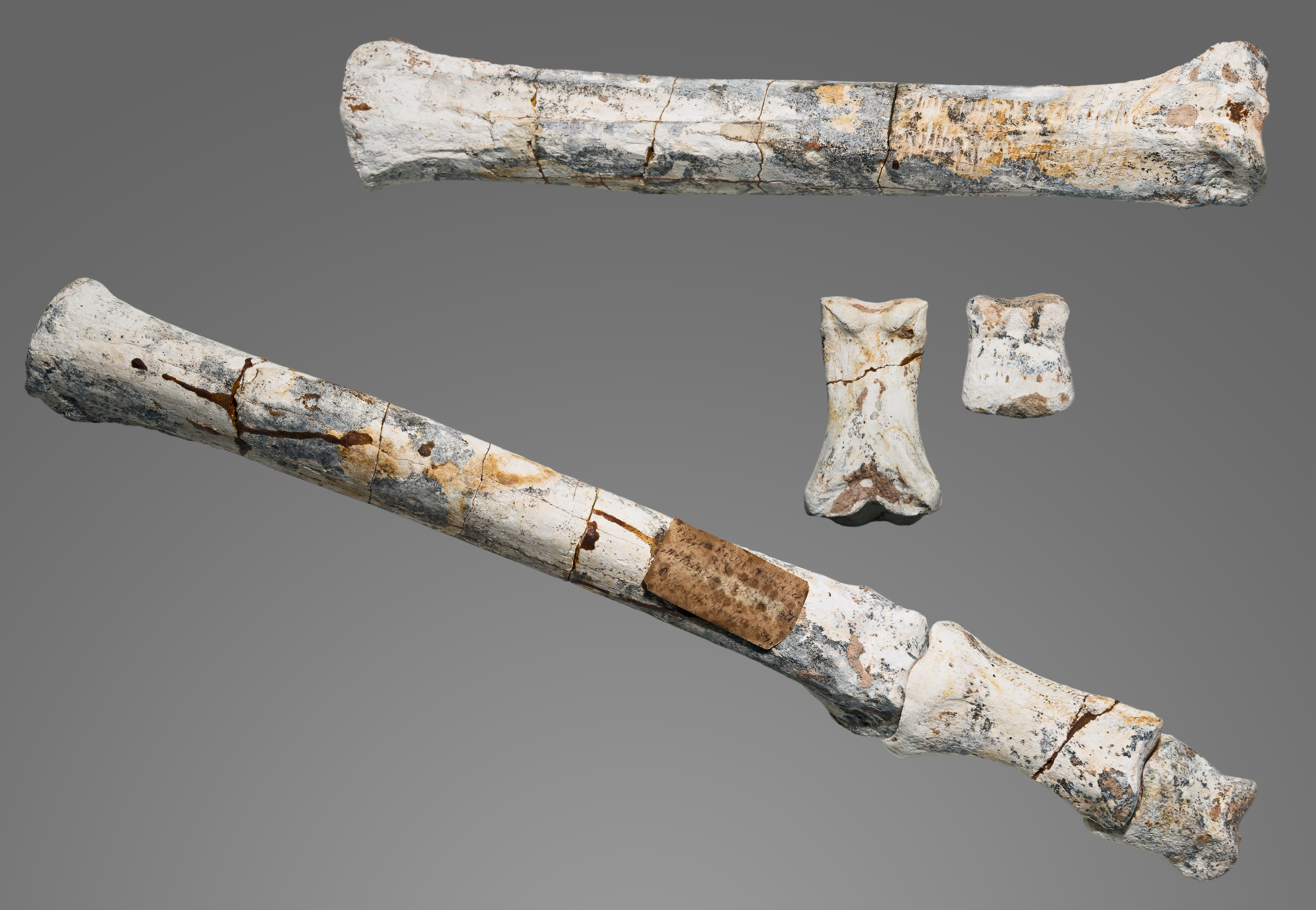 Hippotherium gracile, metapodial : two views of the same specimen Size : 22.5x10x3cm Stage : Miocene 23.03 to 5.332 million years ago (Ma). Collection : Jean Albert Gaudry 1854.